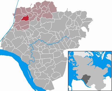 This map shows the area of the municipality Wacken in the Kreis (district) Steinburg, Schleswig-Holstein, Germany.